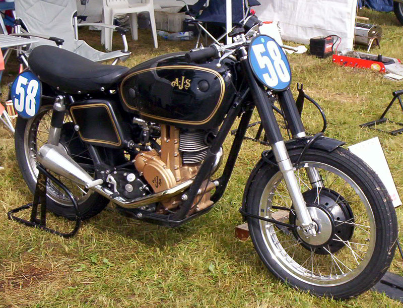 AJS 7R 350 cc Racer 1949